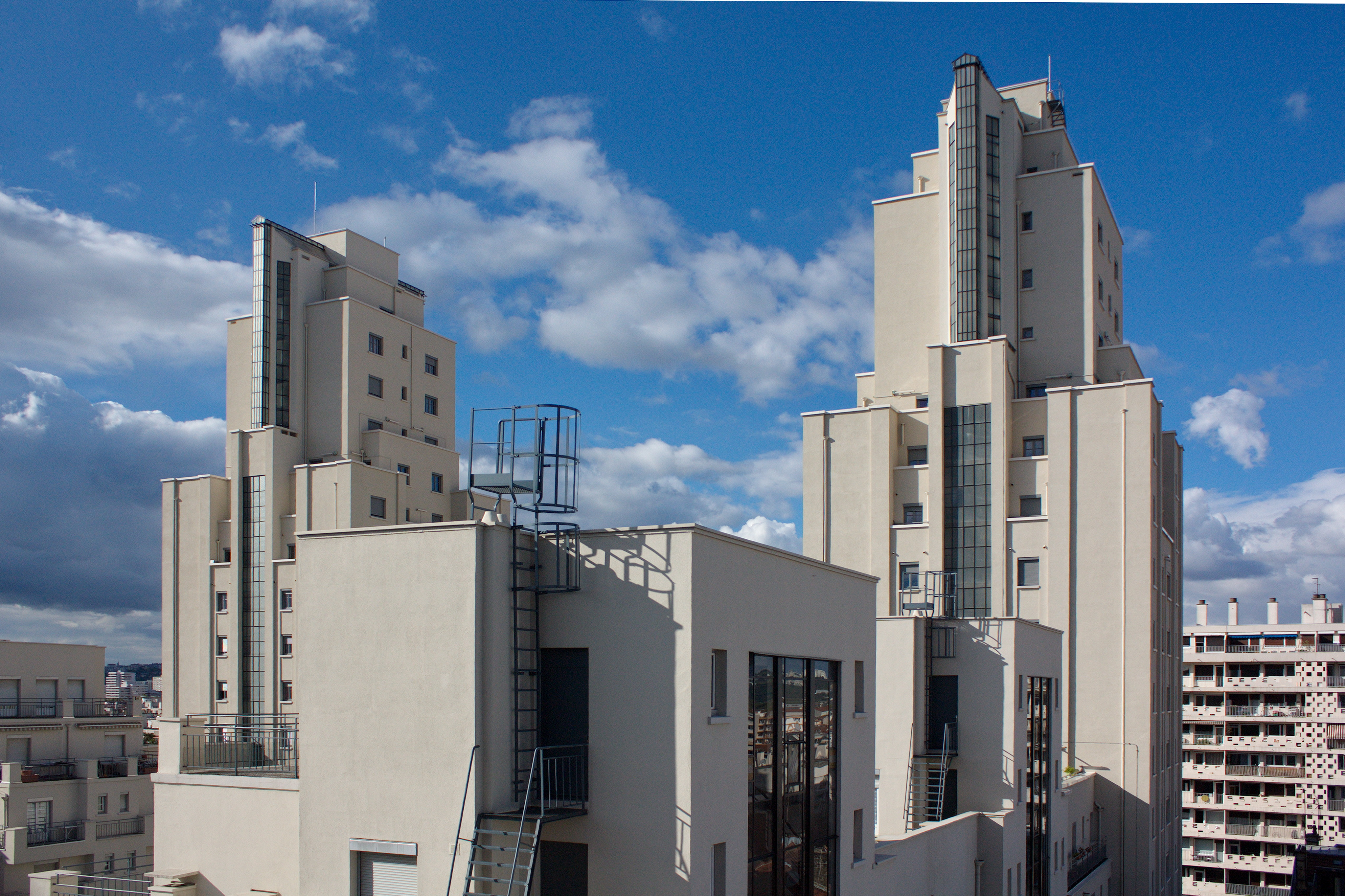 Detail of the towers of the Gratte-ciel council housing development in Villeurbanne, France. Architect: Môrice Leroux. Built: 1931-1934.